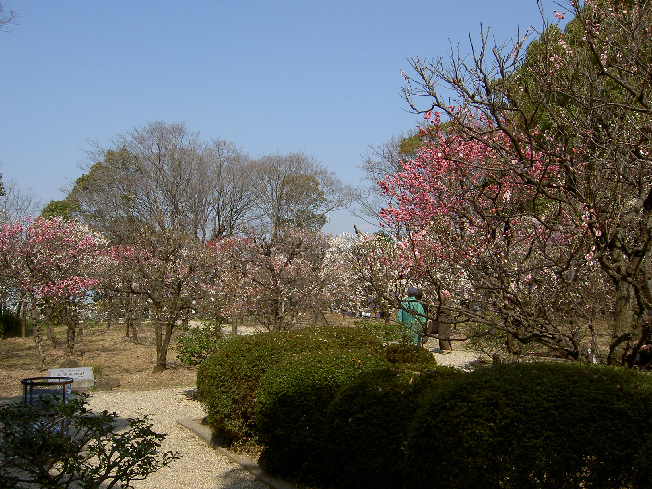 Ogami Bairin (plum-grove). Hirakata-shi, Osaka Japan.